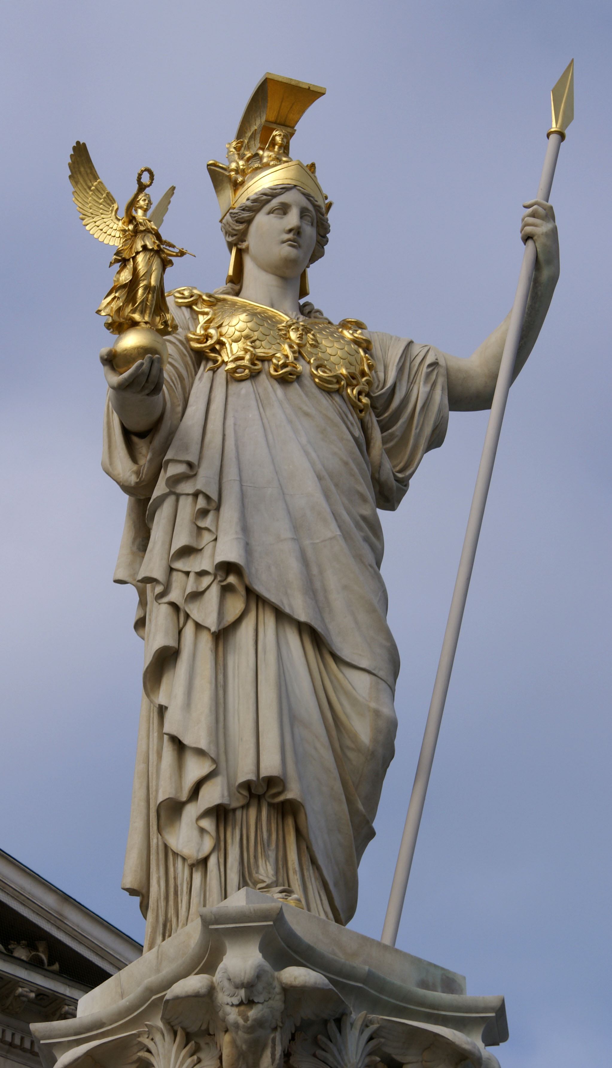 The statue of pallas Athena in front of Parliament Building, Vienna, Austria.